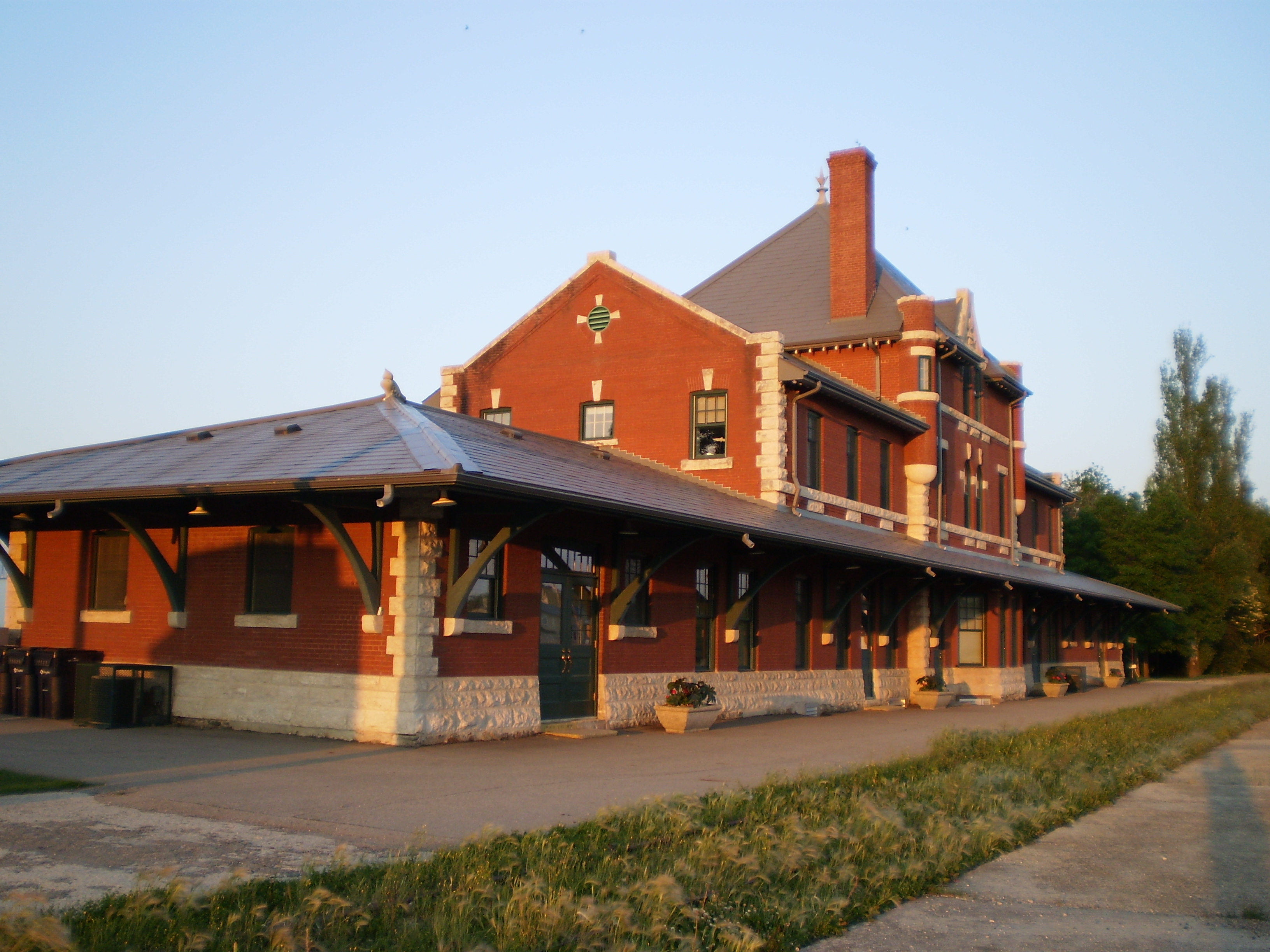 Dauphin train station, 101 First Ave. N. Dauphin, MB, R7N 1G8, Canada